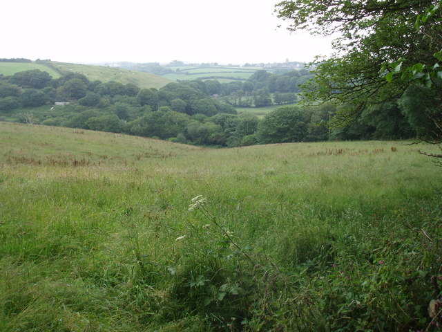 Stream valley at Wheal Fortune. Disused mine in the valley; Sithney church behind.